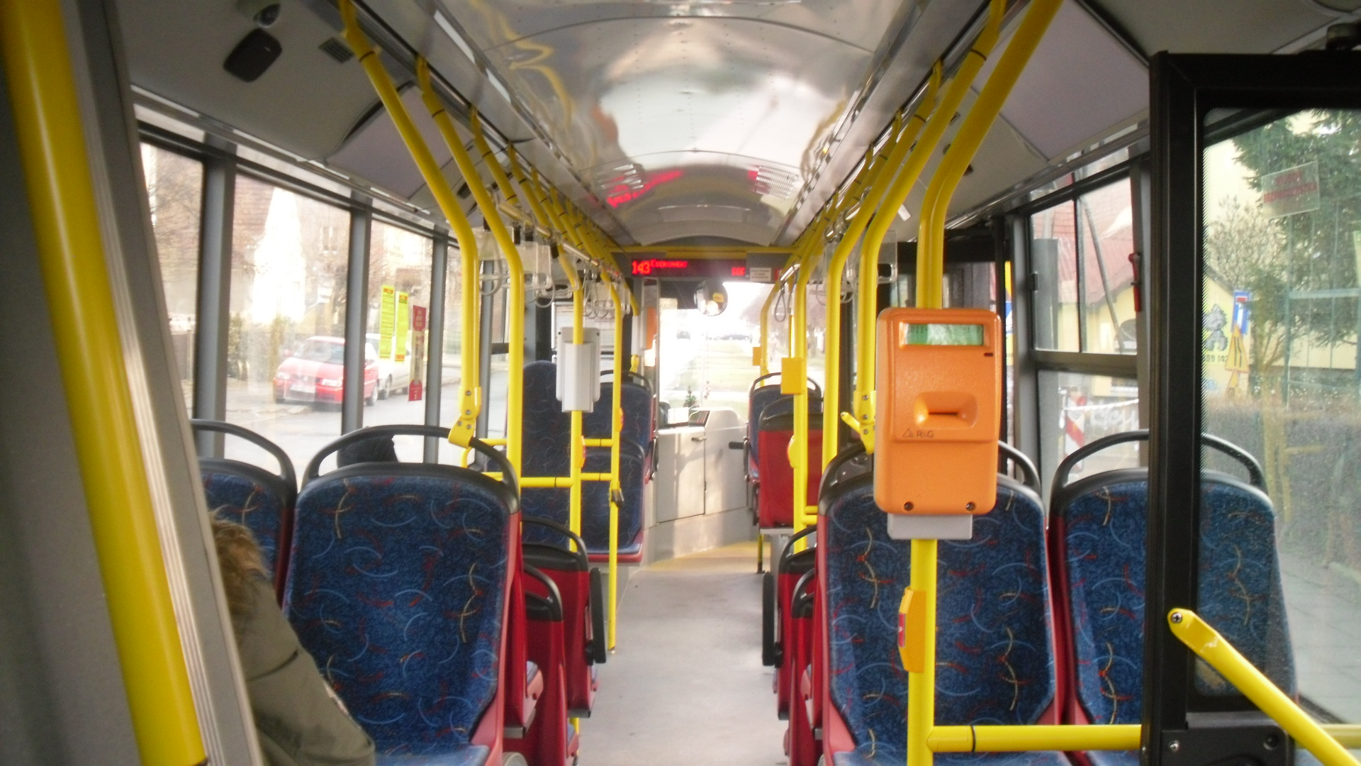 Solbus Solcity 12 bus interior (#8041, reg. TJE 80VL) in Gdańsk, Poland. Built 2008, Warbus from Warsaw - Division Gdańsk operator.